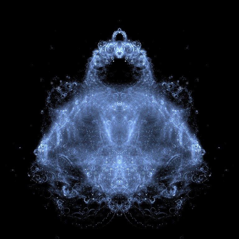 Self made, deeply iterated Buddhabrot. A version without lossy compression is available at Buddhabrot-deep.png (500 K) Some relevant code at User:Evercat/Buddhabrot.c